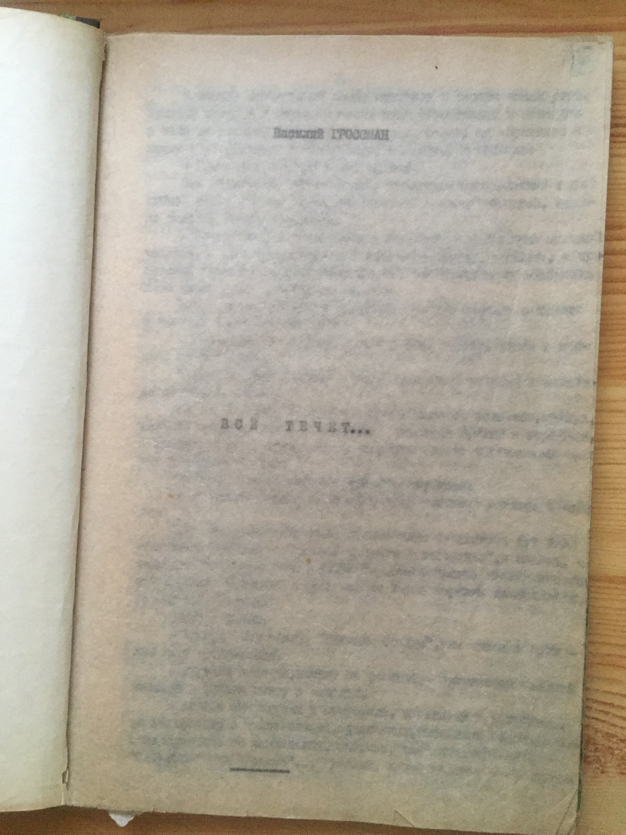 Typewritten samizdat copy of Everything Flows by Vasily Grossmann. Front cover. Moscow.